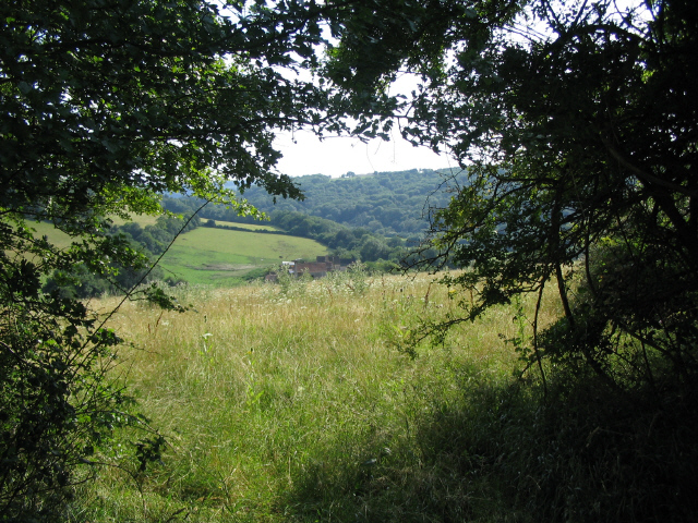 Honeybrook Farm. A view looking to the southwest over grassland towards Honeybrook Farm, nestling in the valley of the By Brook.